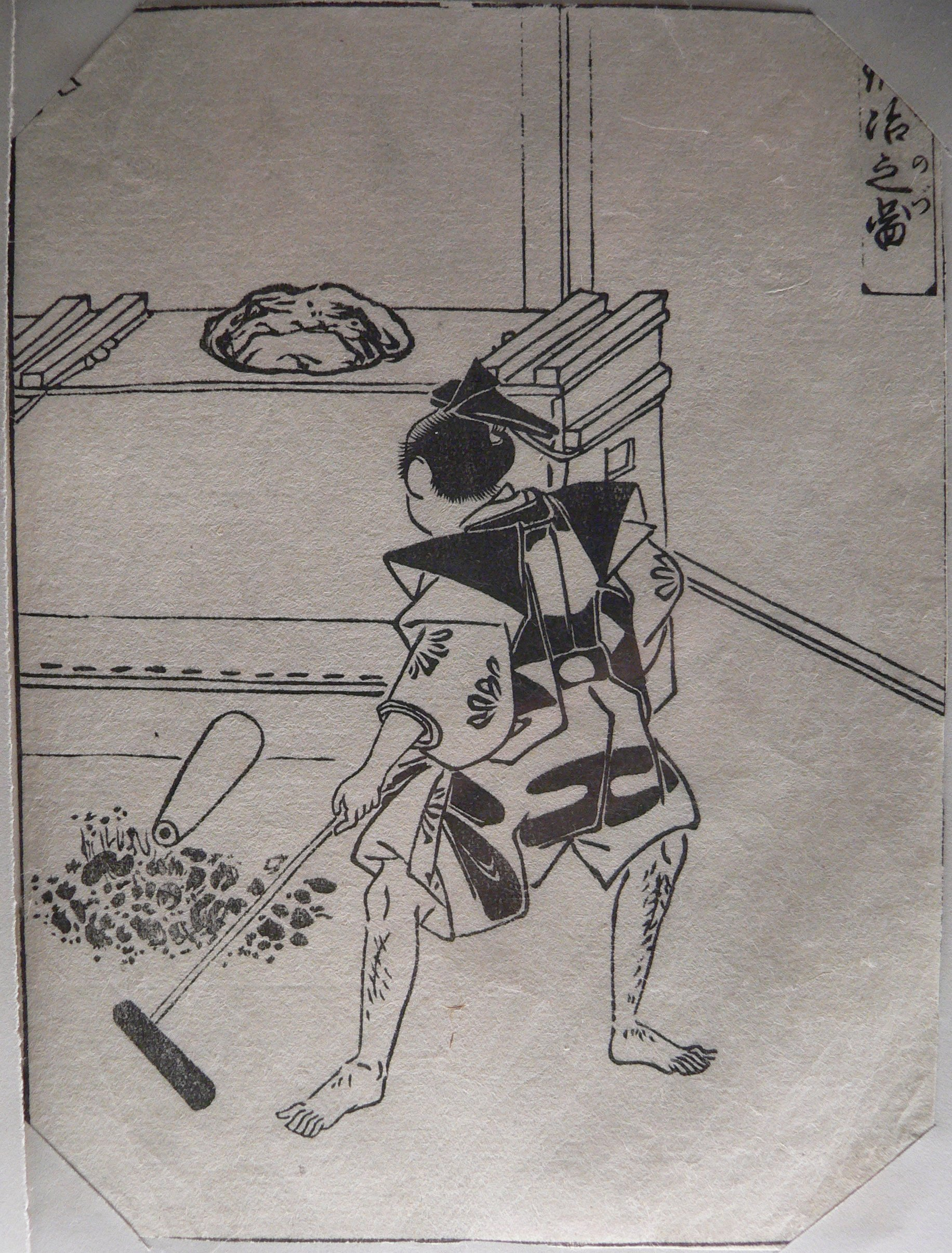 Forge scenes, printed from a Edo period book, Switzerland, Museum of Ethnography of Neuchâtel